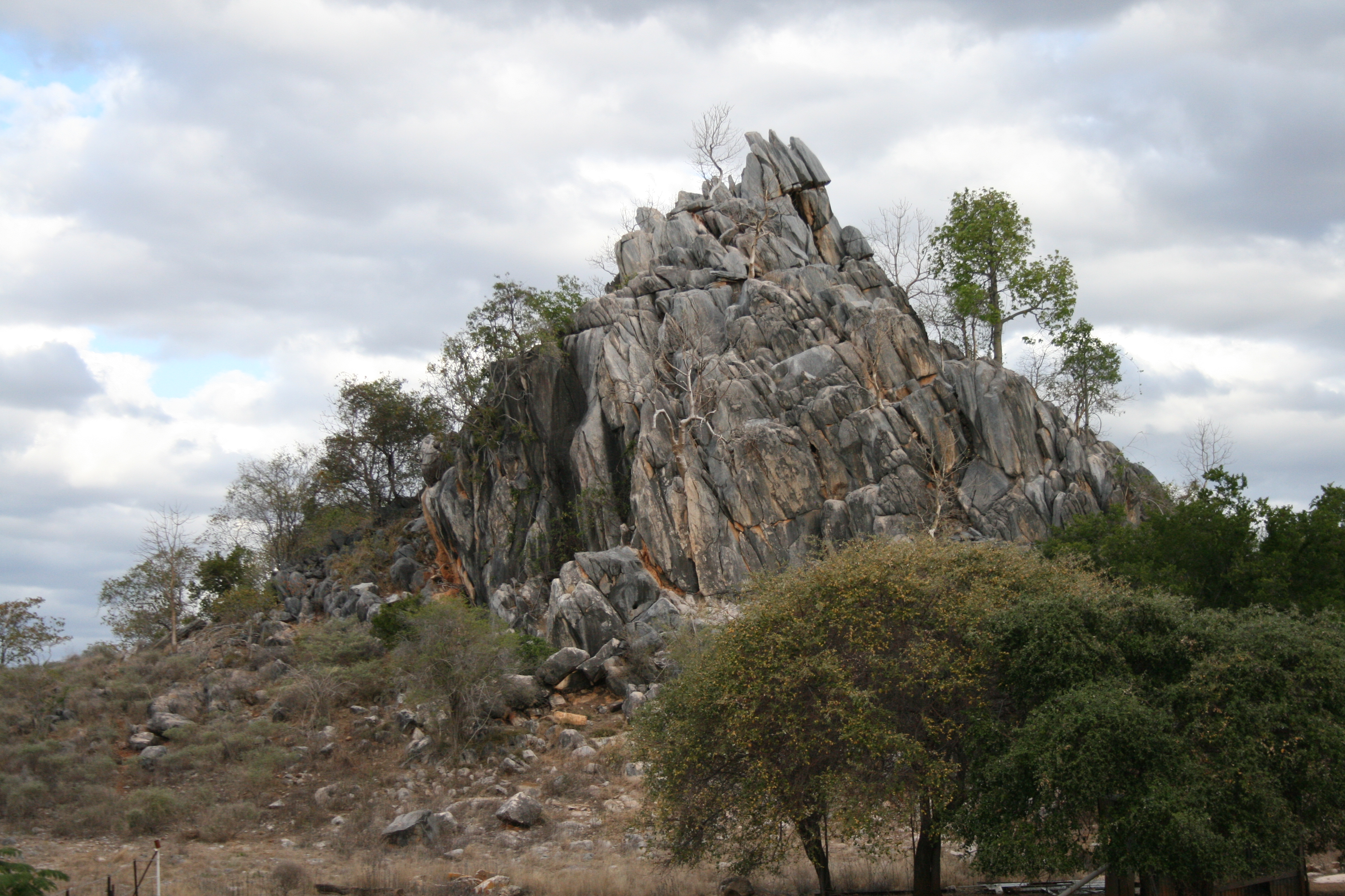 Chillagoe in north Queensland, Australia